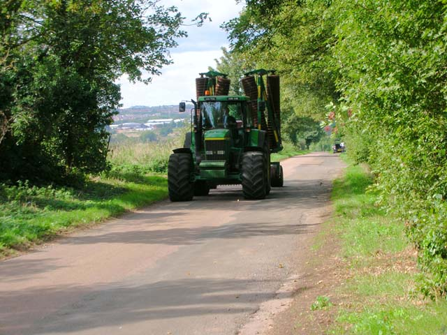 Tractor with cultivator on Harrowden Road, Finedon. The cultivator id a Cambridge Rimroll. The rollers are raised to the vertical for road travel.